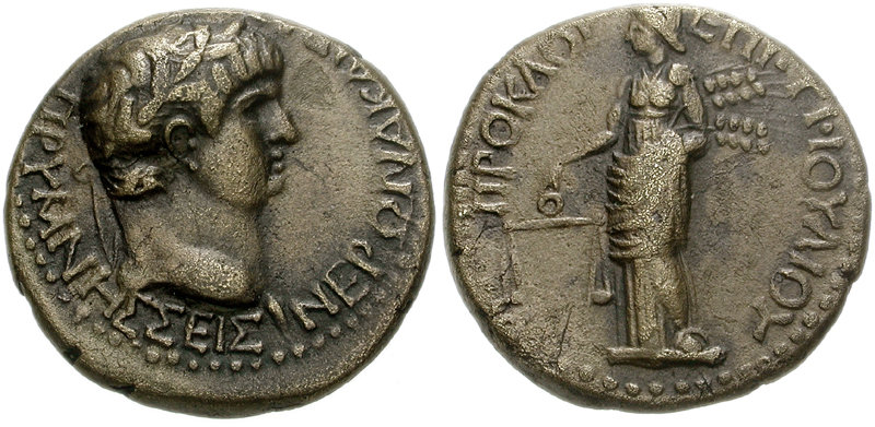 PHRYGIA, Prymnessus. Nero. AD 54-68. Æ 20mm (5.22 g, 12h). Ti. Julius Proclus, magistrate. Laureate head right / Dikaiosyne standing left, holding scales and grain ears; TI IOYLIOY PROKLOY (in Greek) in legend.